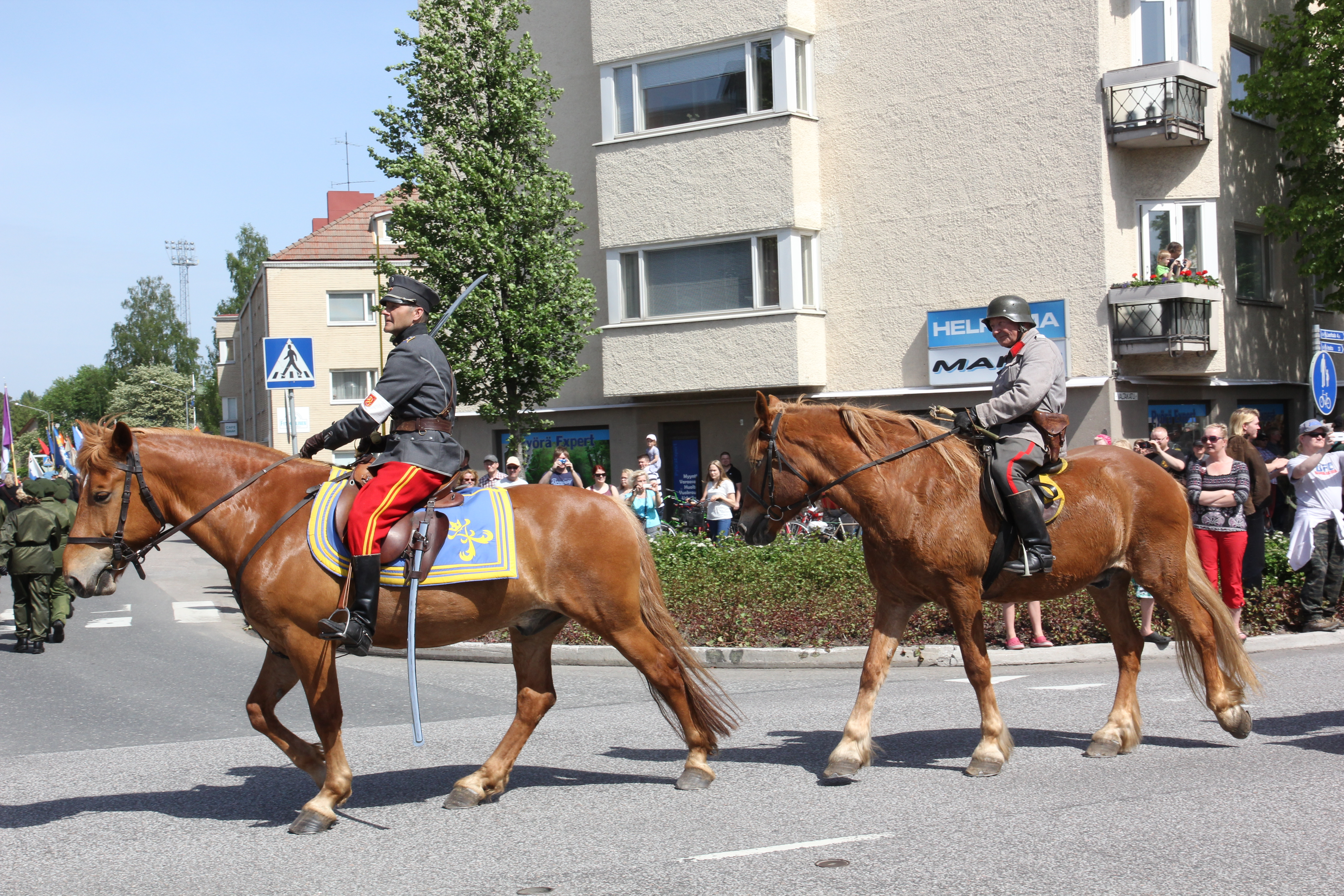 Dragoon and artillery heritage guilds during the Finnish military Flag Day 2014 parade along Valtakatu street in Lappeenranta.